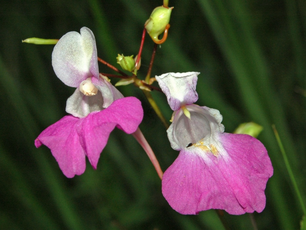 Impatiens balfourii, Piani di Praglia, Genova, Italy